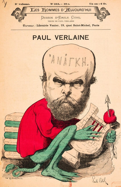 Caricature of Paul Verlaine (1844-1896) by Émile Cohl (1857-1938) from Les Hommes d'aujourd'hui, vol. 5, n° 244.